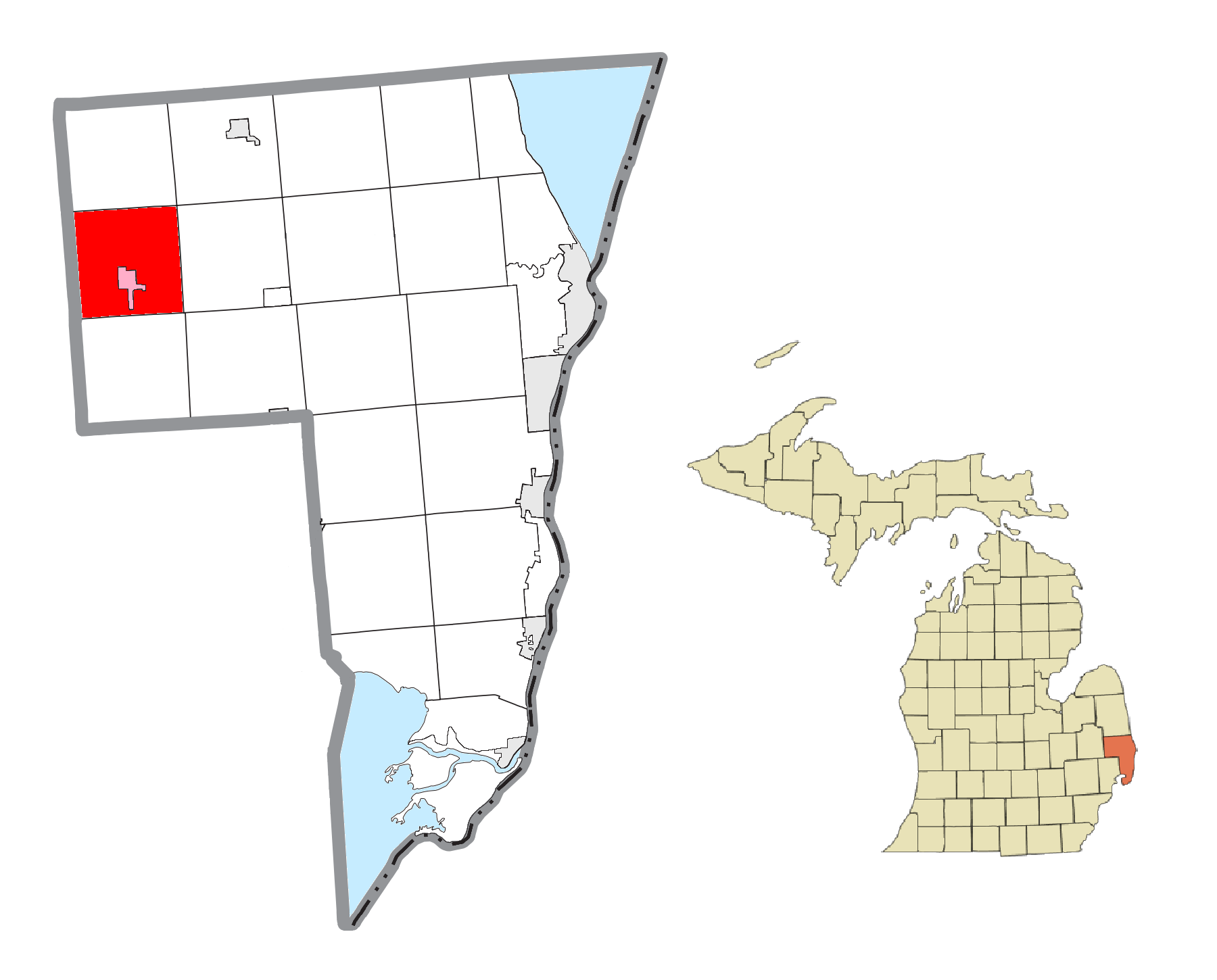 Mussey Township, MI